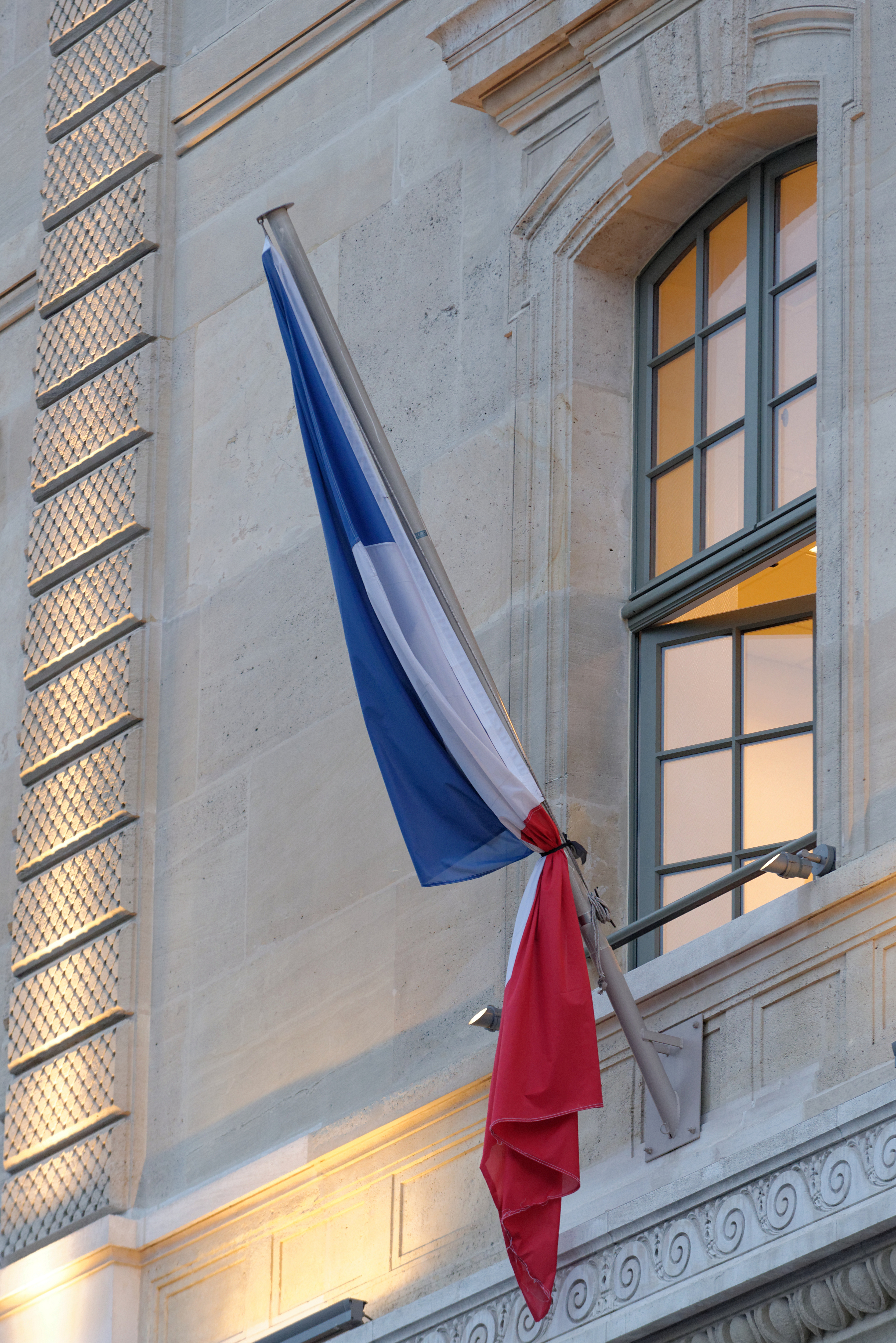 French flag tied with a black ribbon at the Prefecture of Police of Paris on 8 January 2015, declared a day of national mourning in tribute to the victims of the Charlie Hebdo attack.